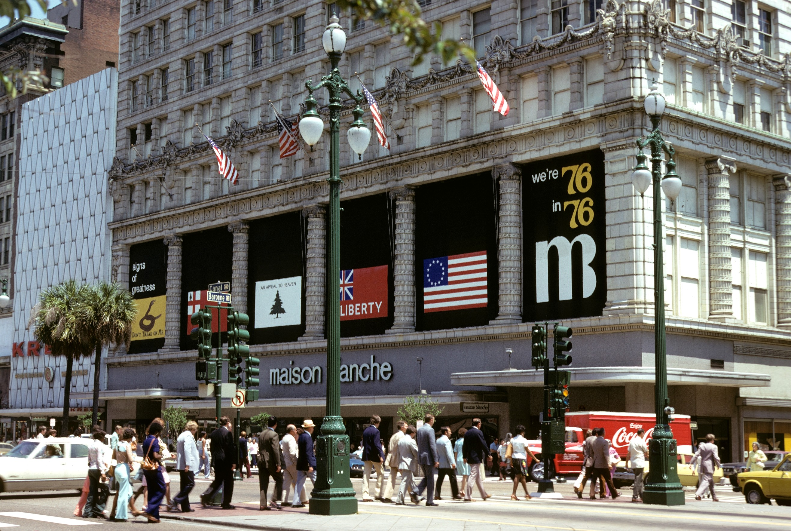 Maison Blanche department store, Canal Street, New Orleans, 1976 Notes: Decorations on store celebrate U.S. Bicentennial. To left is the Kress Store.